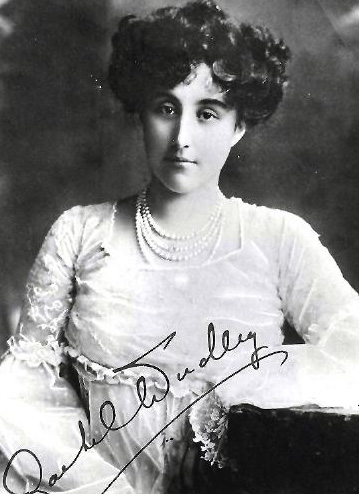 Lady Rachel Dudley (nee Rachel Gurney) circa 1900